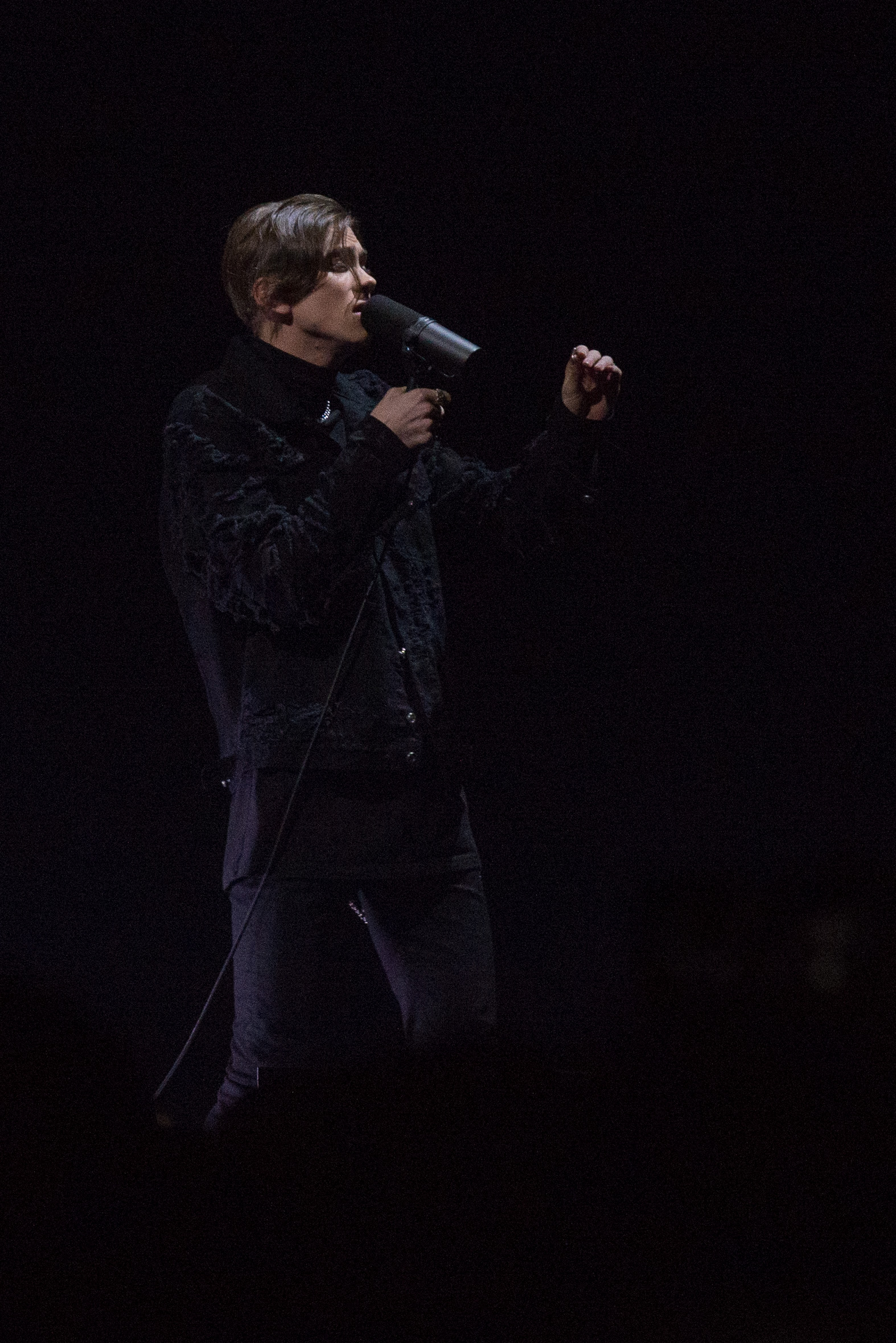 Melodifestivalen 2018 Final in Stockholm